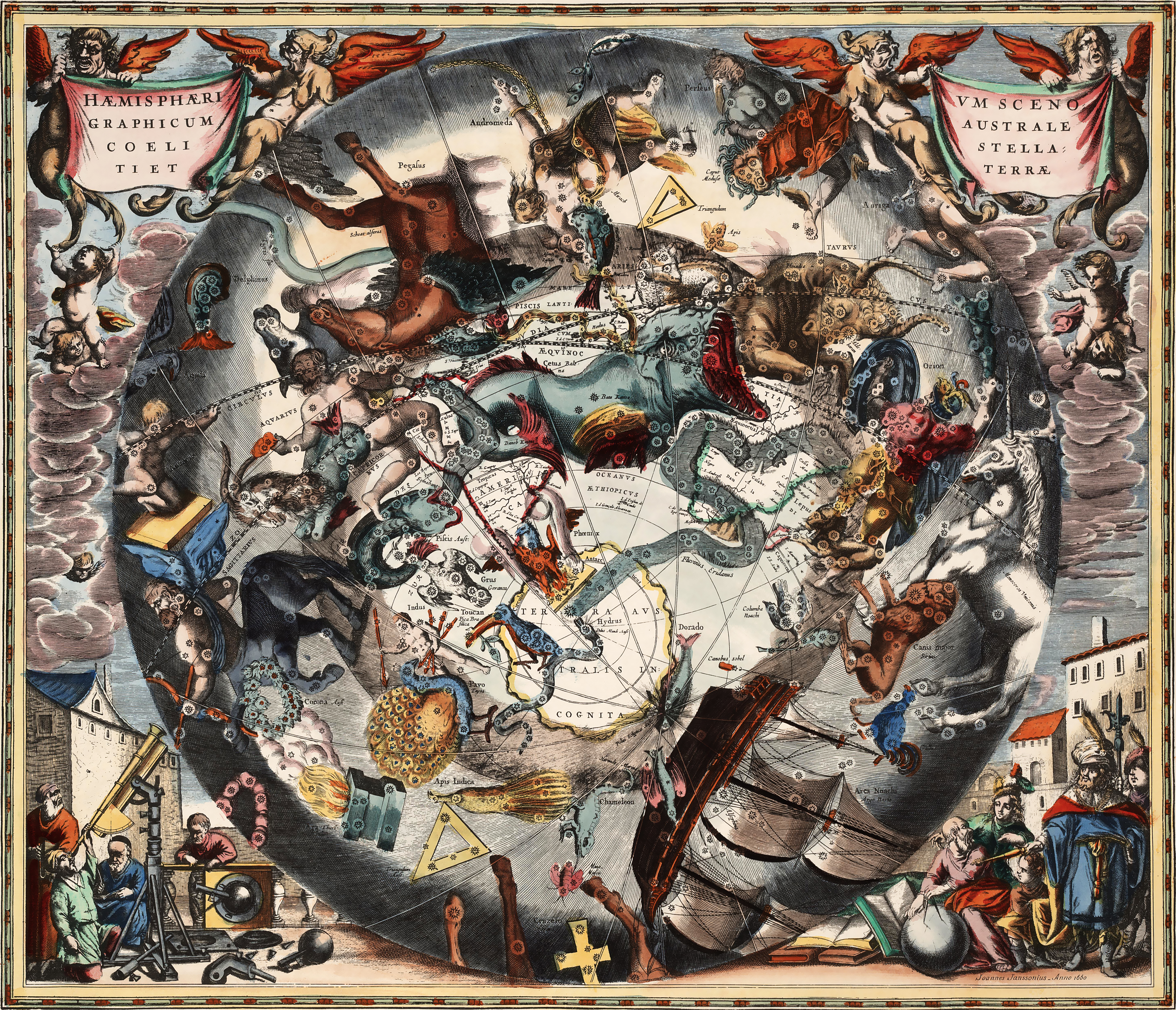 Southern hemisphere constellations scenographically over the terrestrial globe. Plate from Andreas Cellarius Harmonia Macrocosmica of 1661. Since the celestial sphere is seen from "outside", the sides are reversed wrt. to the view for a terrestrial observer.